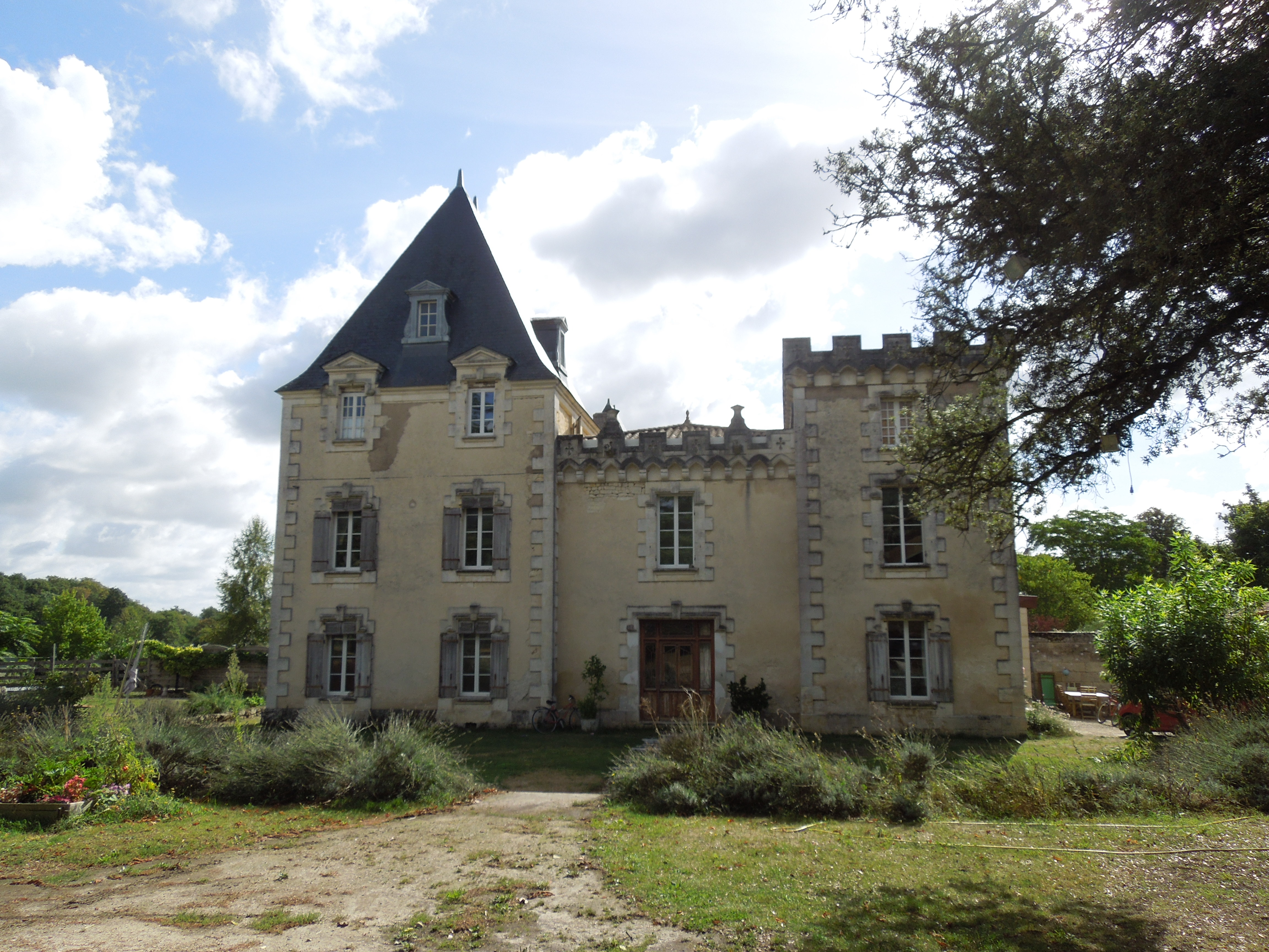 Chateau de Favières near Mosnac, view from the north